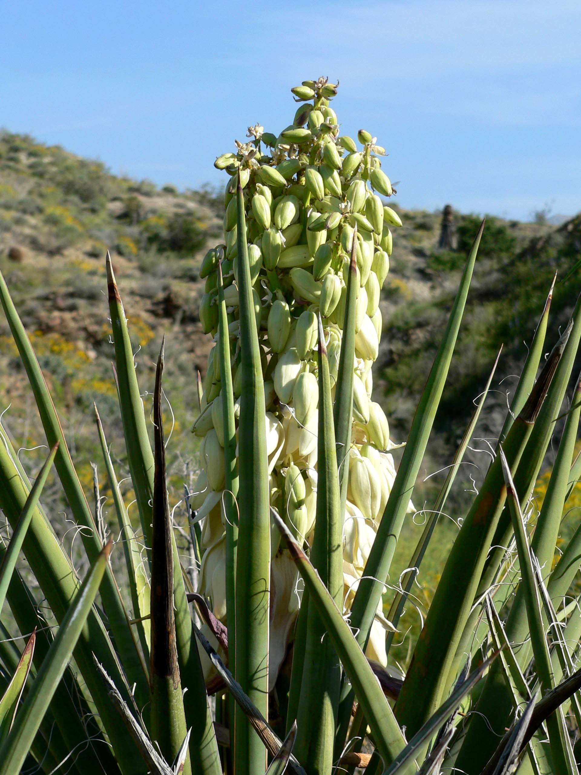 Photo of a Yucca schidigera (Mojave yucca) in Palm Canyon, California